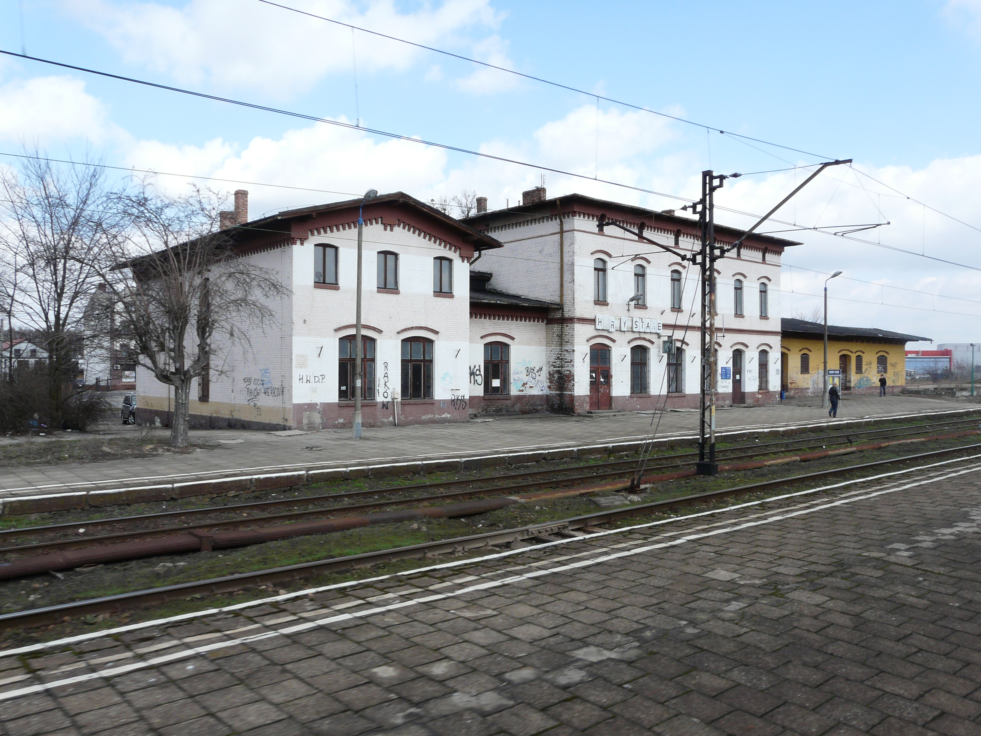 Herby Stare railway station in 2013